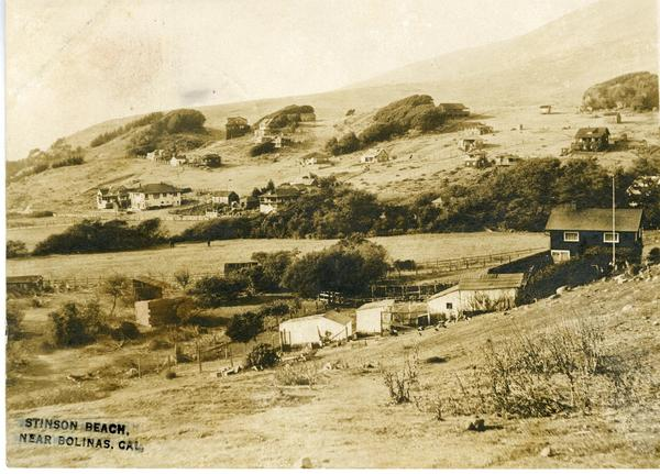 Postcard showing a photgraph of Stinson Beach, in 1916, the year that the name was changed from Willow Camp and the first Post Office opened.